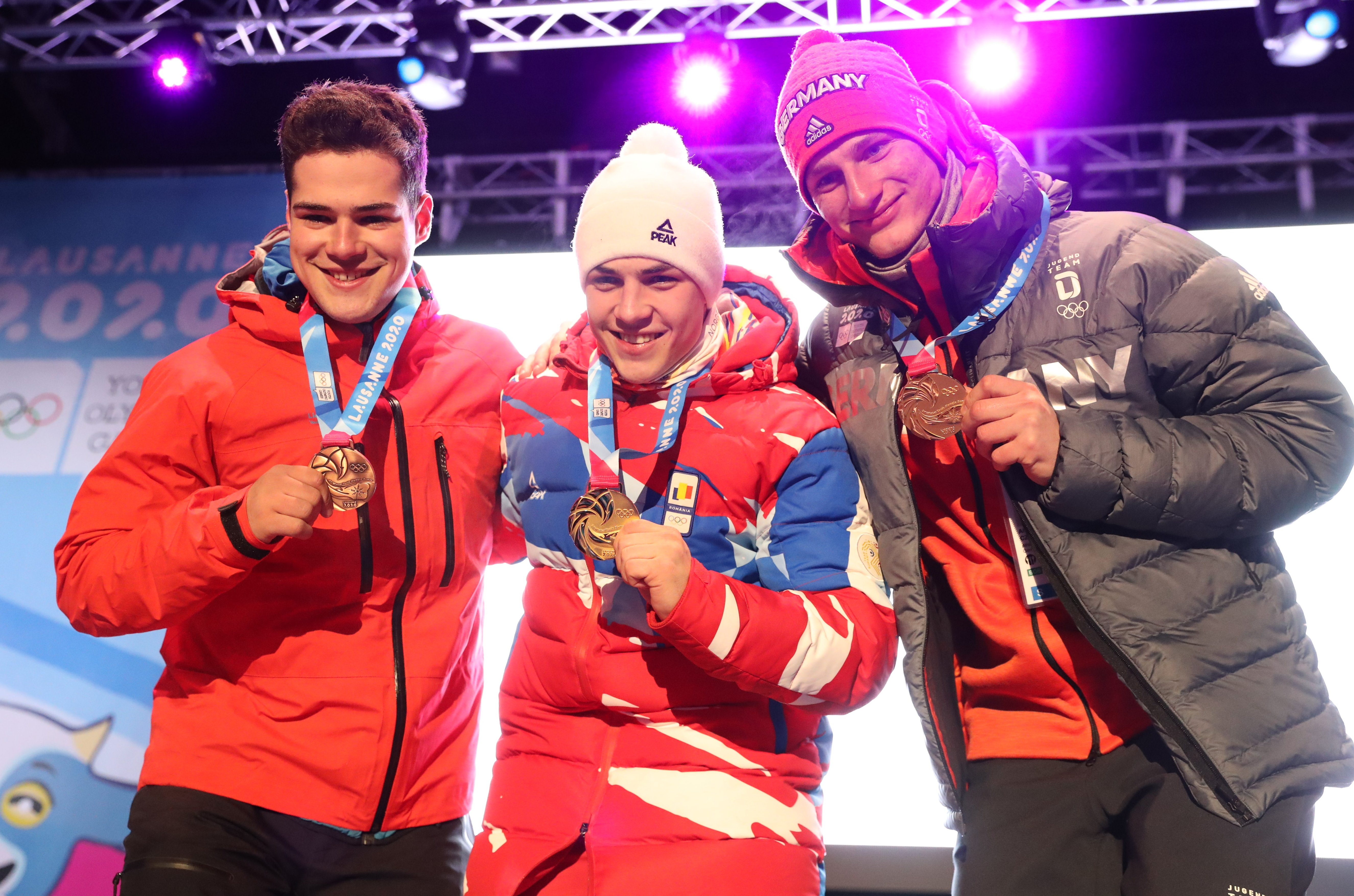 Medal Ceremony Day 11 in St. Moritz, 2020 Winter Youth Olympics in Lausanne